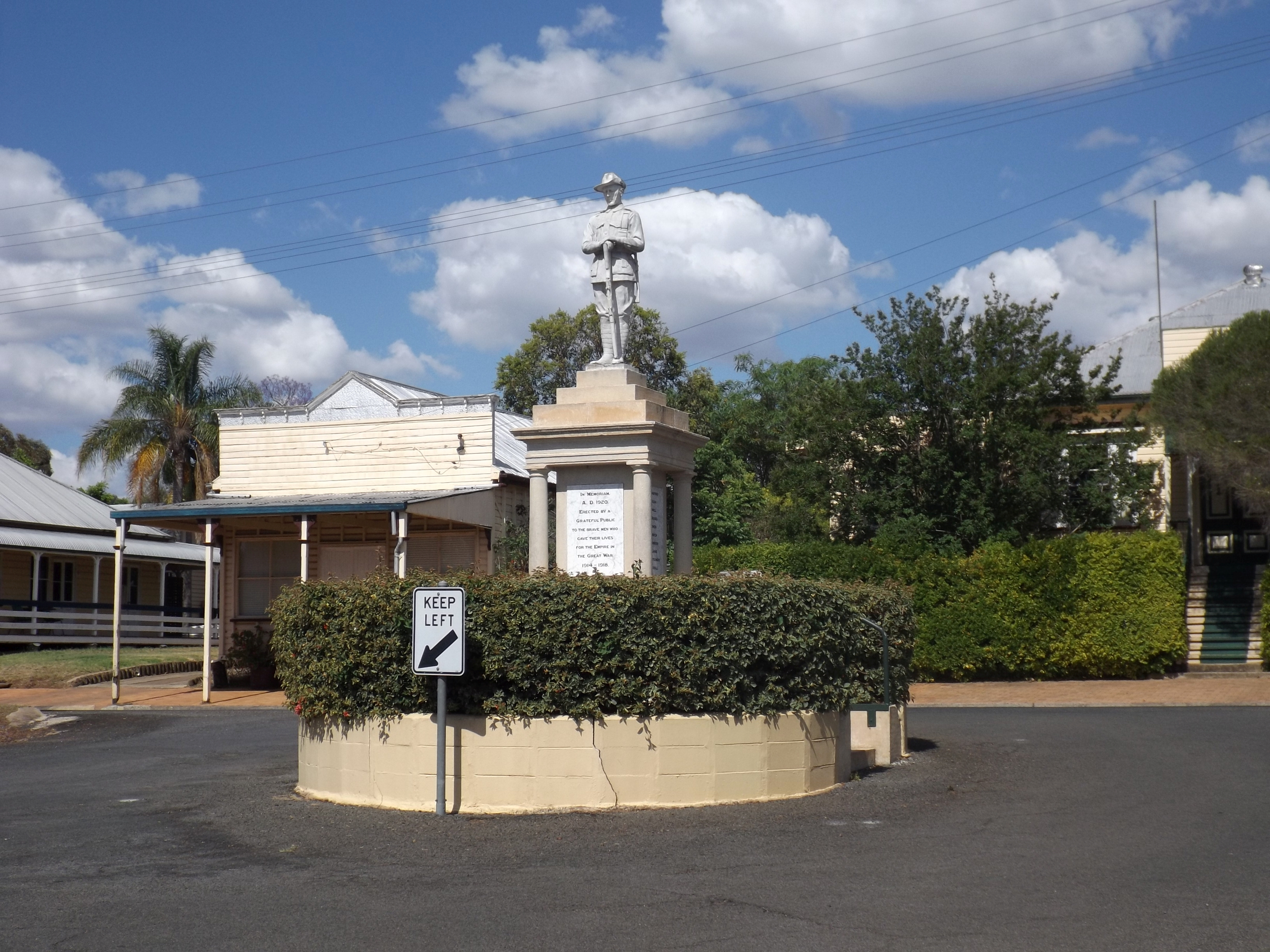 Photo of Goombungee War Memorial in the centre of Kingsthorpe Haden Road at Goombungee in the Toowoomba Regional local government area of the Darling Downs in Queensland, Australia.